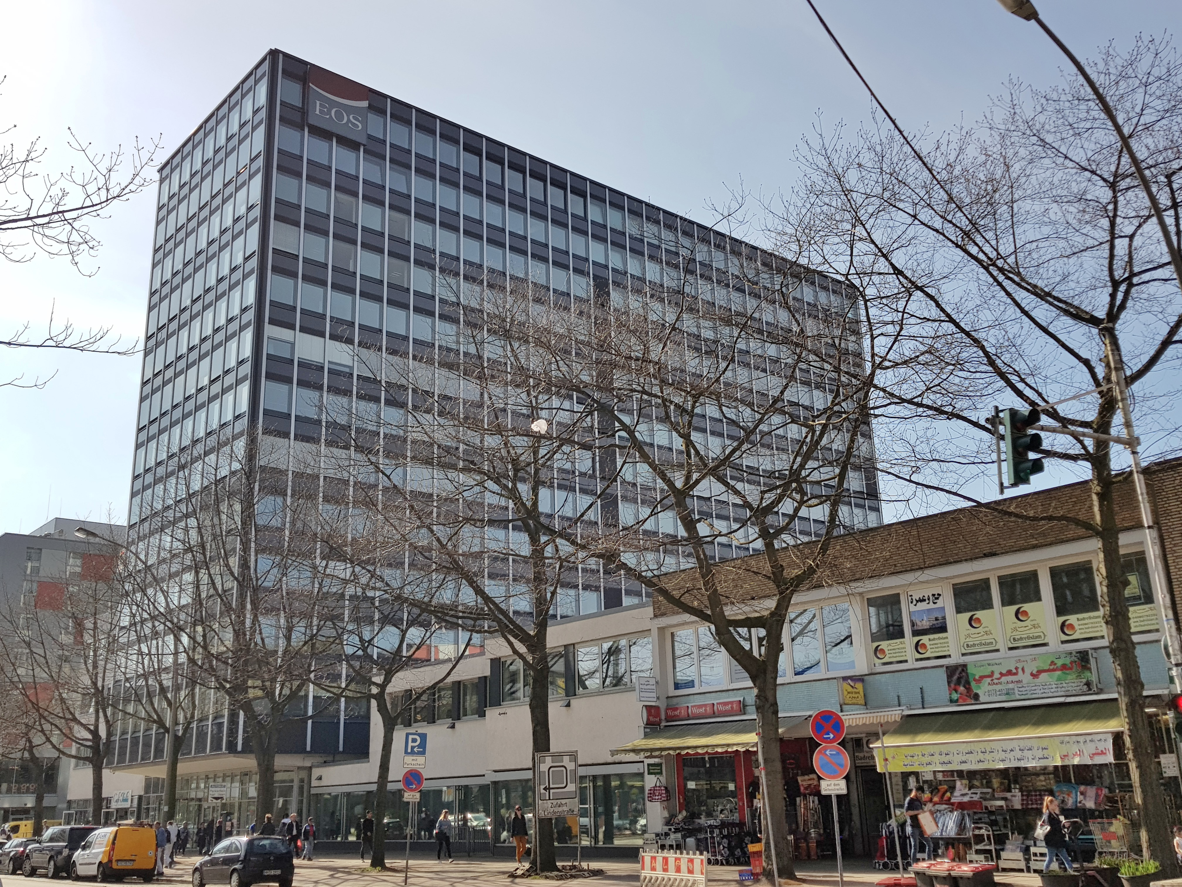 EOS building in D-20099 Hamburg (Germany), Steindamm 71.